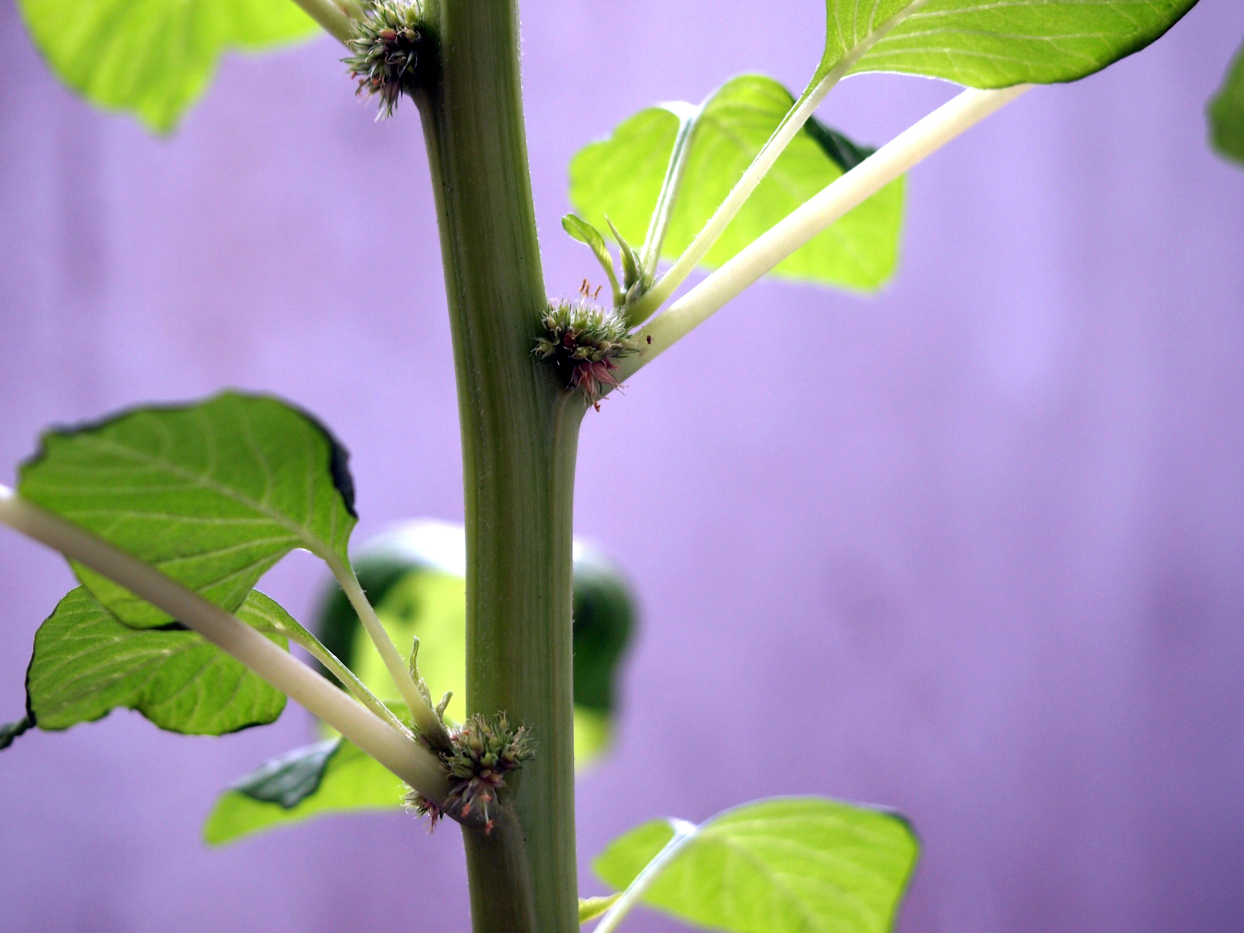 The flowers of Amaranth or Red Spinach . probably Amaranthus tricolor (Syn. A. gangeticus)